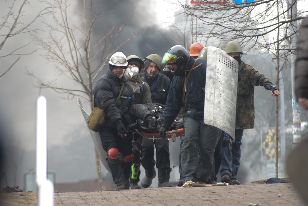 Protesters transporting wounded from the field. Clashes in Kyiv, Ukraine. Events of February 18, 2014